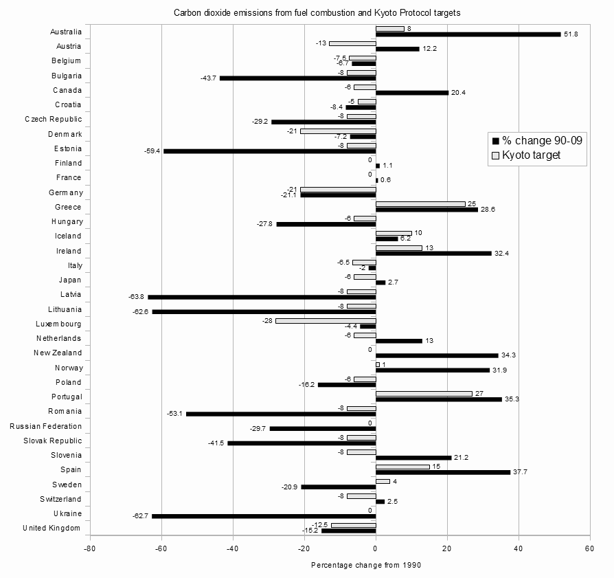 This bar graph shows Kyoto Parties with first period (2008-2012) greenhouse gas emissions limitations targets and the percentage change in their carbon dioxide emissions from fuel combustion between 1990 and 2009. The Kyoto targets apply to a “basket” of six greenhouse gases and allow sinks (i.e., activities that remove carbon from the atmosphere) and international credits to be used for compliance with the target. The overall EU-15 target under the Protocol is 8%, but the member countries have agreed on a burden-sharing arrangement as shown. Some countries (e.g., France) have a target of 0%, and consequently no bar for their target appears on the graph. Note that emissions from Monaco are included with France. This graph is based on data taken from the International Energy Agency (IEA) publication “CO2 Emissions From Fuel Combustion: Highlights (2011 edition);” publisher: IEA, Paris, France; Page 13. The PDF version (size 1717 KB) is freely available for download.